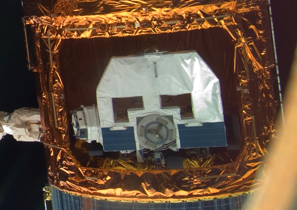 Backdropped by Earth's horizon and the blackness of space, the International Space Station's Canadarm2 grapples the unpiloted Japanese H-II Transfer Vehicle (HTV) in preparation for its release from the station. European Space Agency astronaut Frank De Winne, Expedition 21 commander; NASA astronaut Nicole Stott and Canadian Space Agency astronaut Robert Thirsk, both flight engineers, used the station's robotic arm to grab the HTV cargo craft, filled with trash and unneeded items, and unberth it from the Harmony node's nadir port. The HTV was successfully unberthed at 10:18 a.m. (CDT) on Oct. 30, 2009, and released from the station's Canadarm2 at 12:32 p.m.